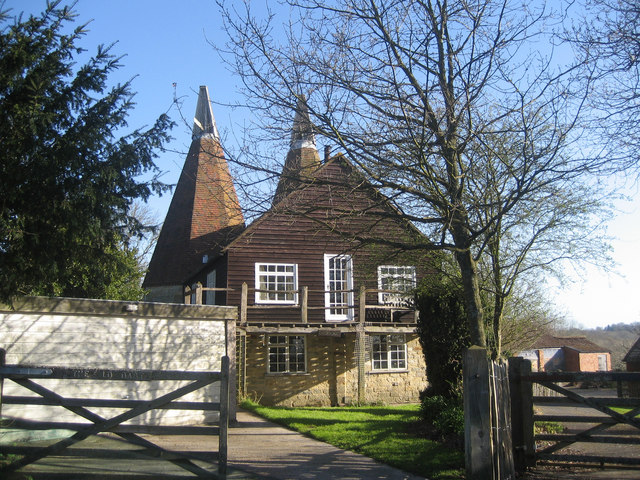 The Old Oast, Stream Lane, Hawkhurst